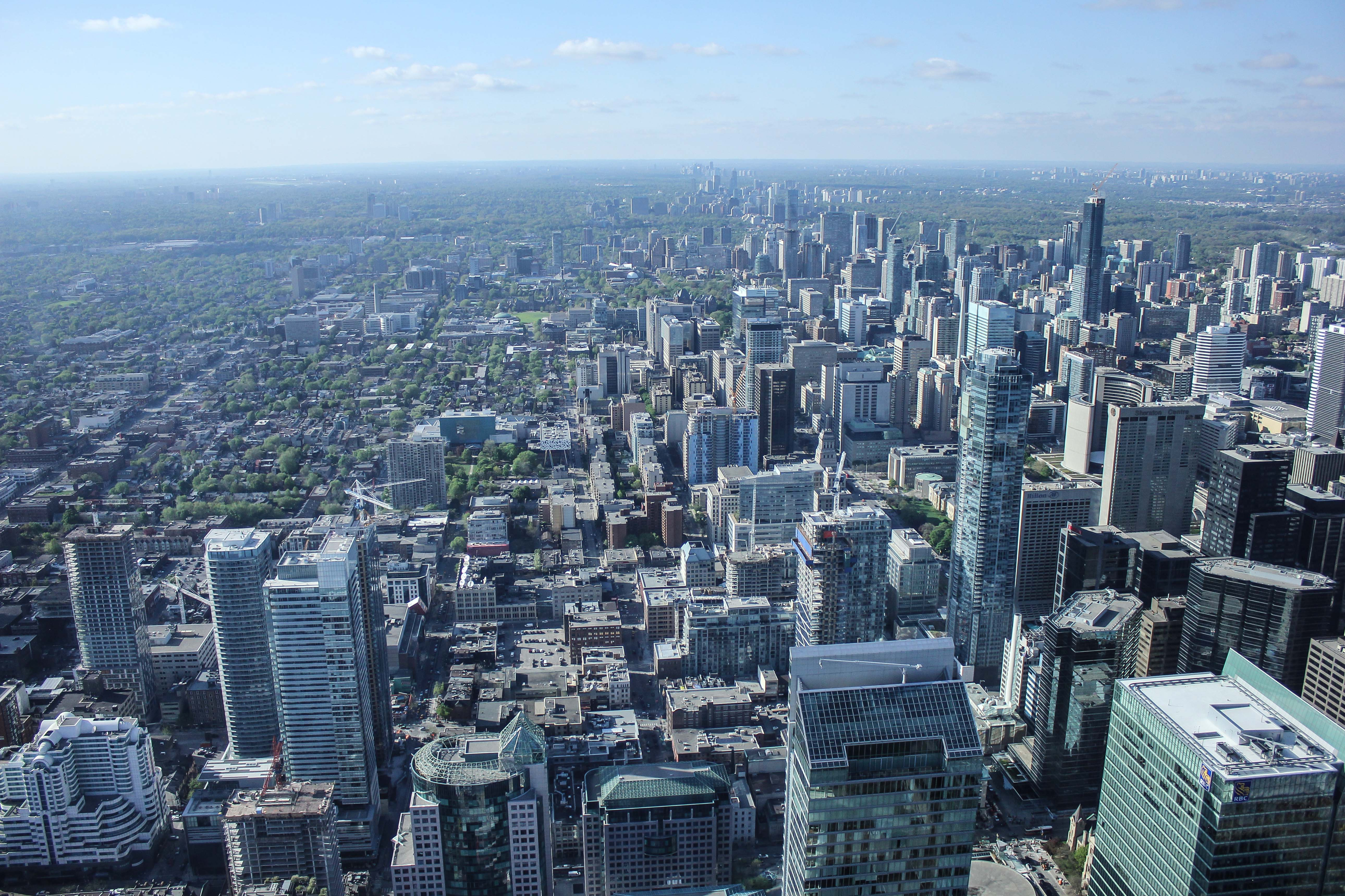 CN Tower